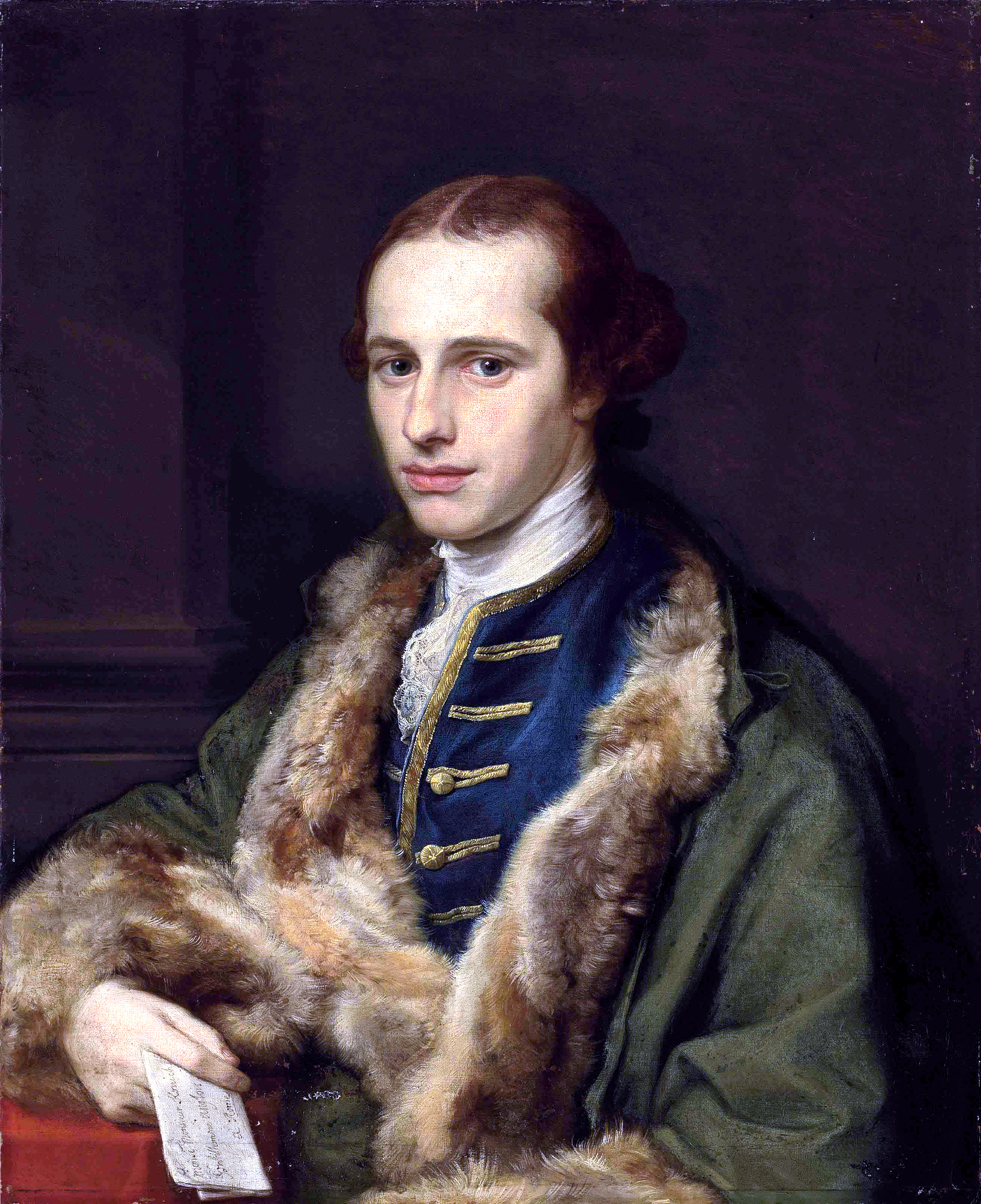 Reverend Thomas Kerrich (1748-1828)